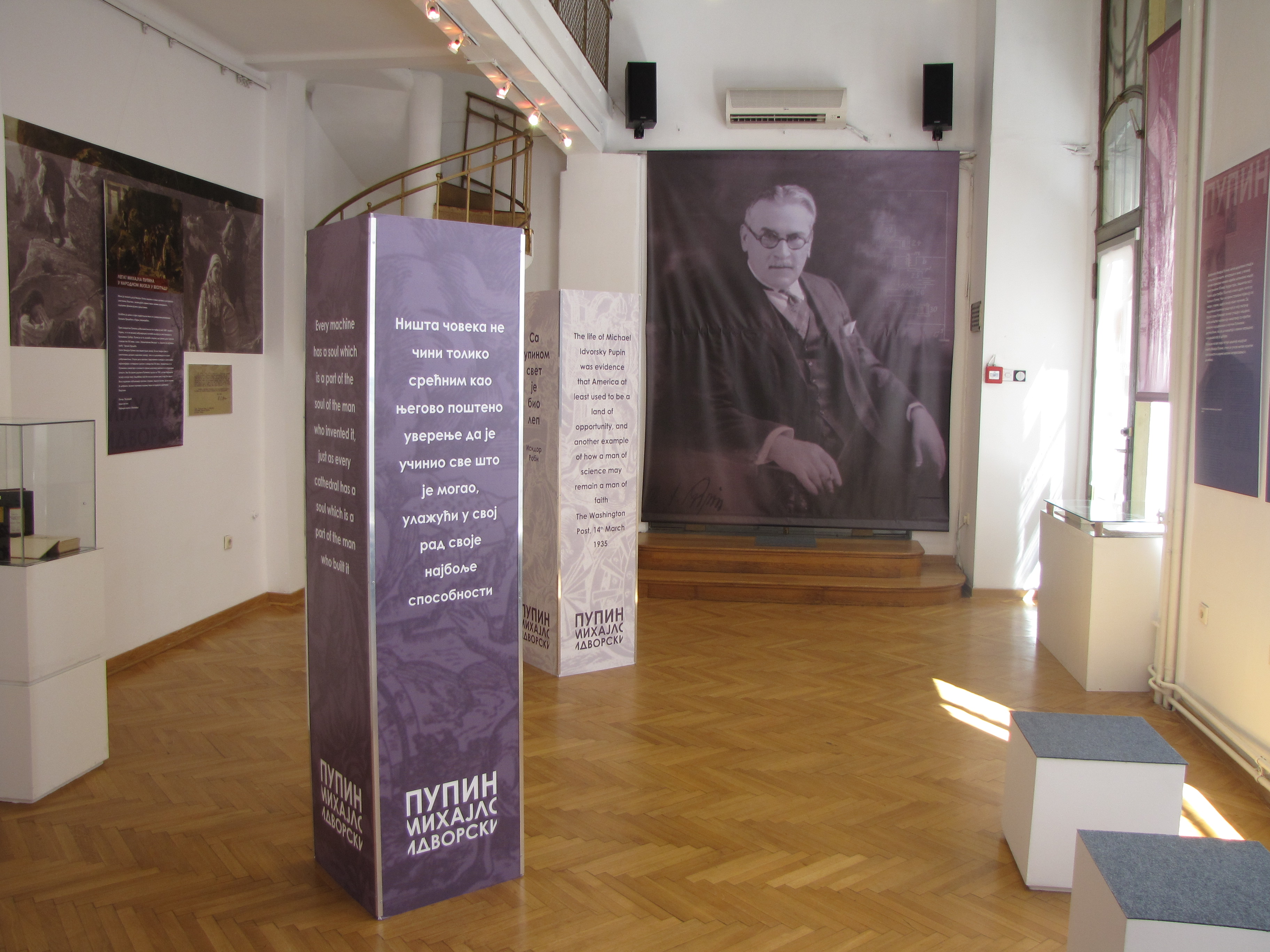 SASA Gallery of Science and Technology, Mihajlo Idvorski Pupin – A Creative Coordination, 2012